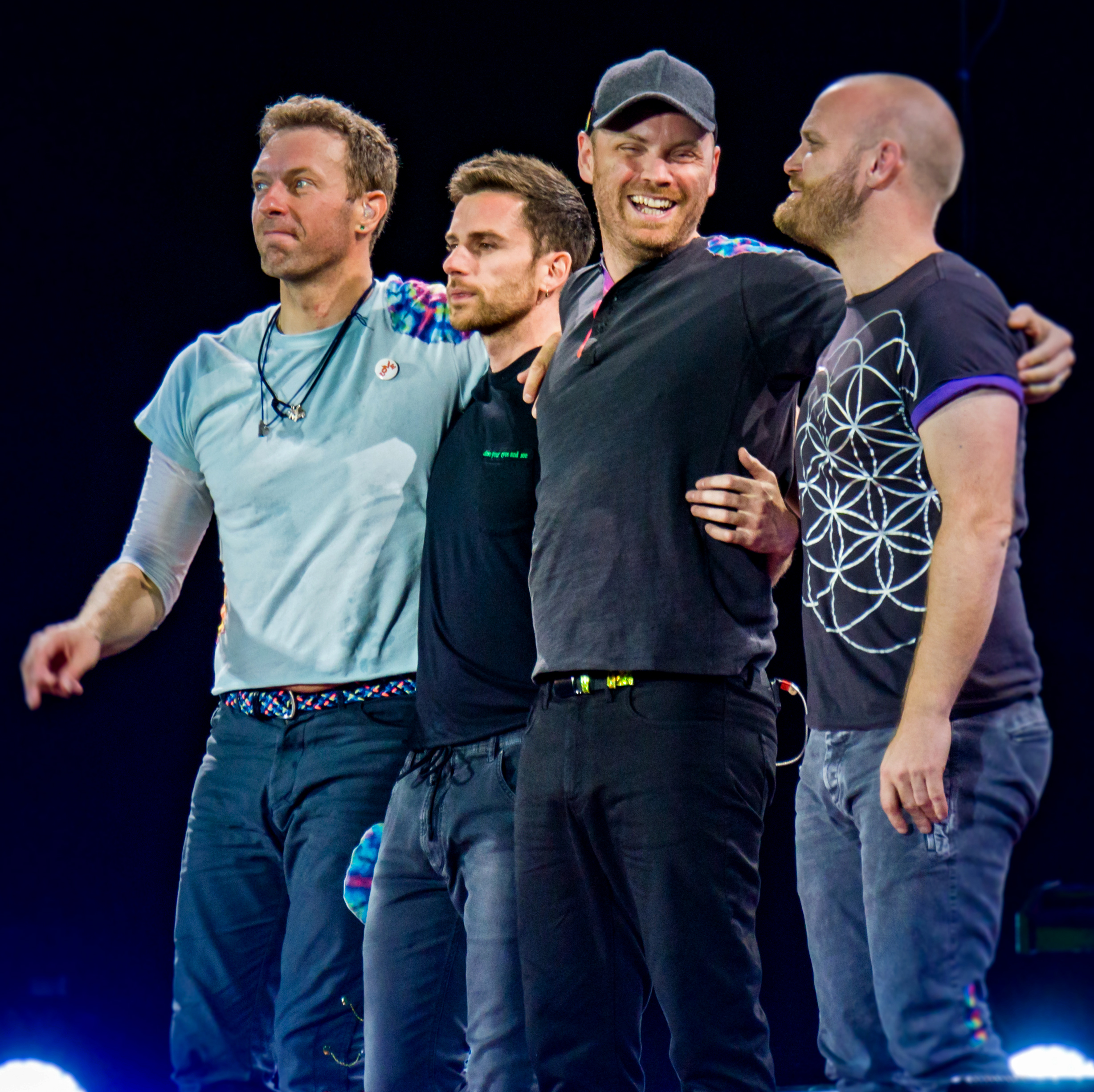 The Rose Bowl Stadium, Pasadena, California. Friday 6th October 2017.